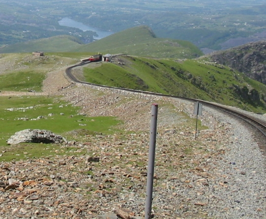 Snowdon Mountain Railway, 2004-06-13, descending towards a passing station the steepness of the track is evident